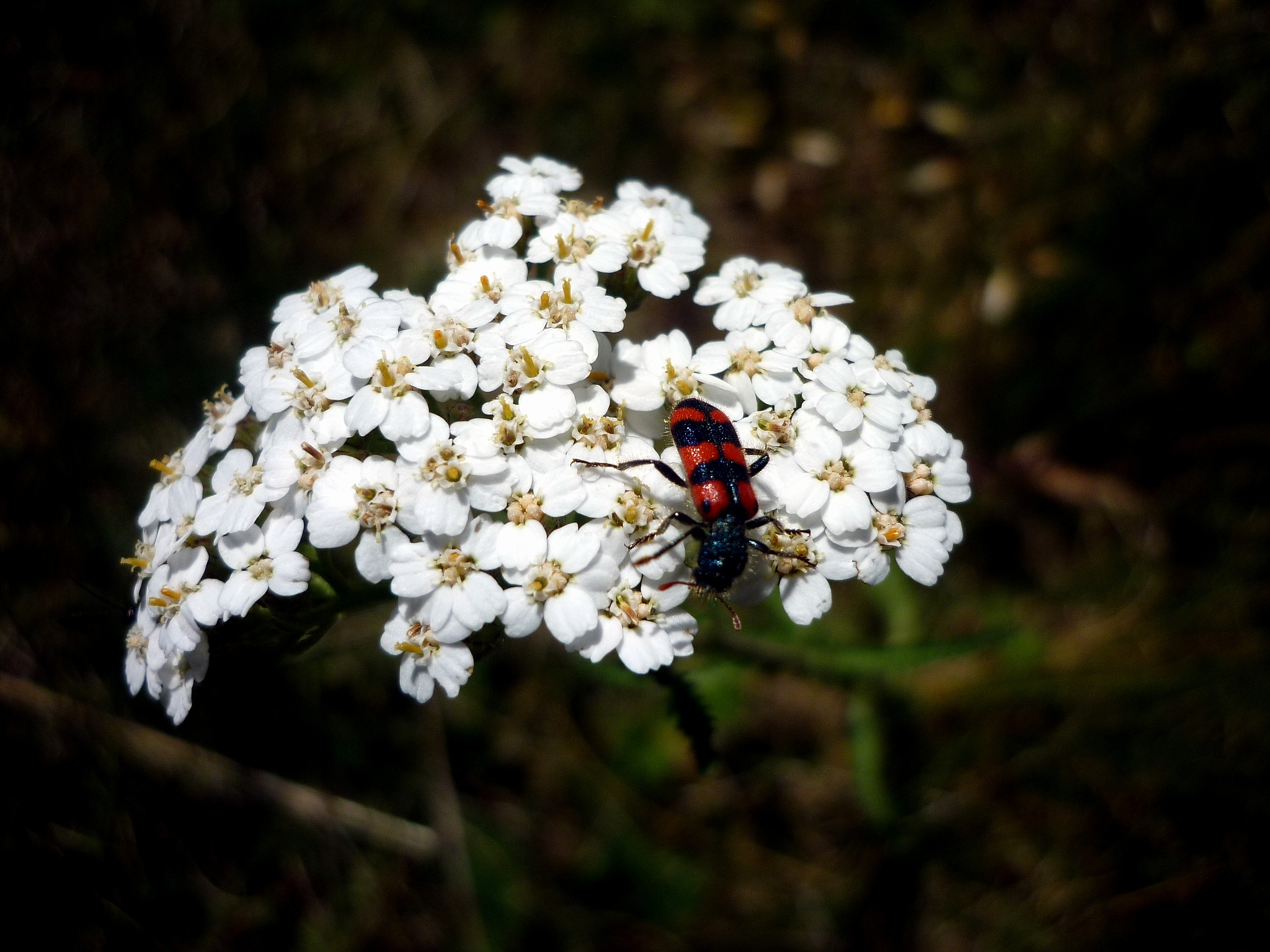 Achillea millefolium. In la Bòfia, Odèn (Solsonès - Catalunya), at 1,740 m. altitude